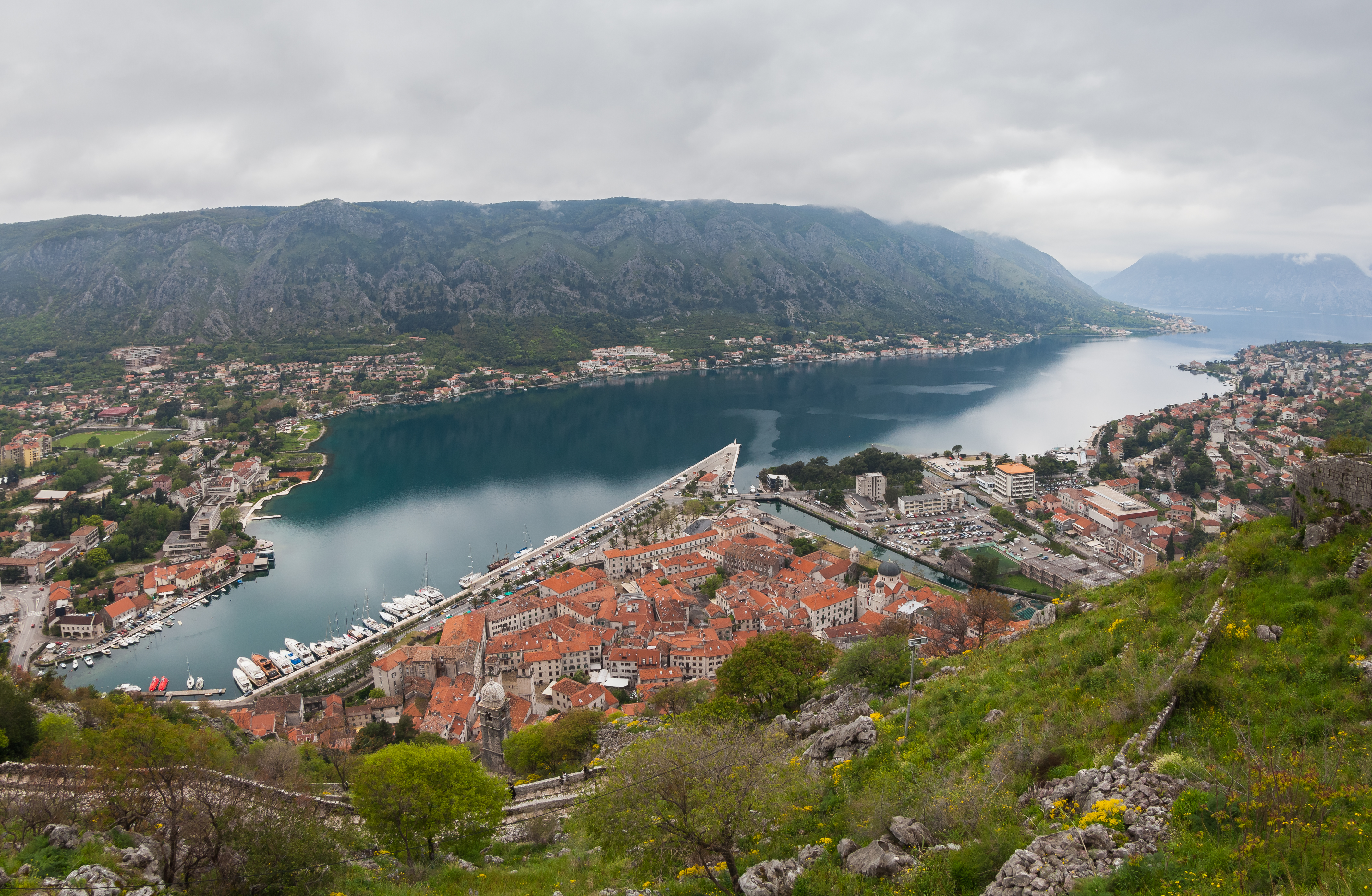 View of Kotor, Bay of Kotor, Montenegro